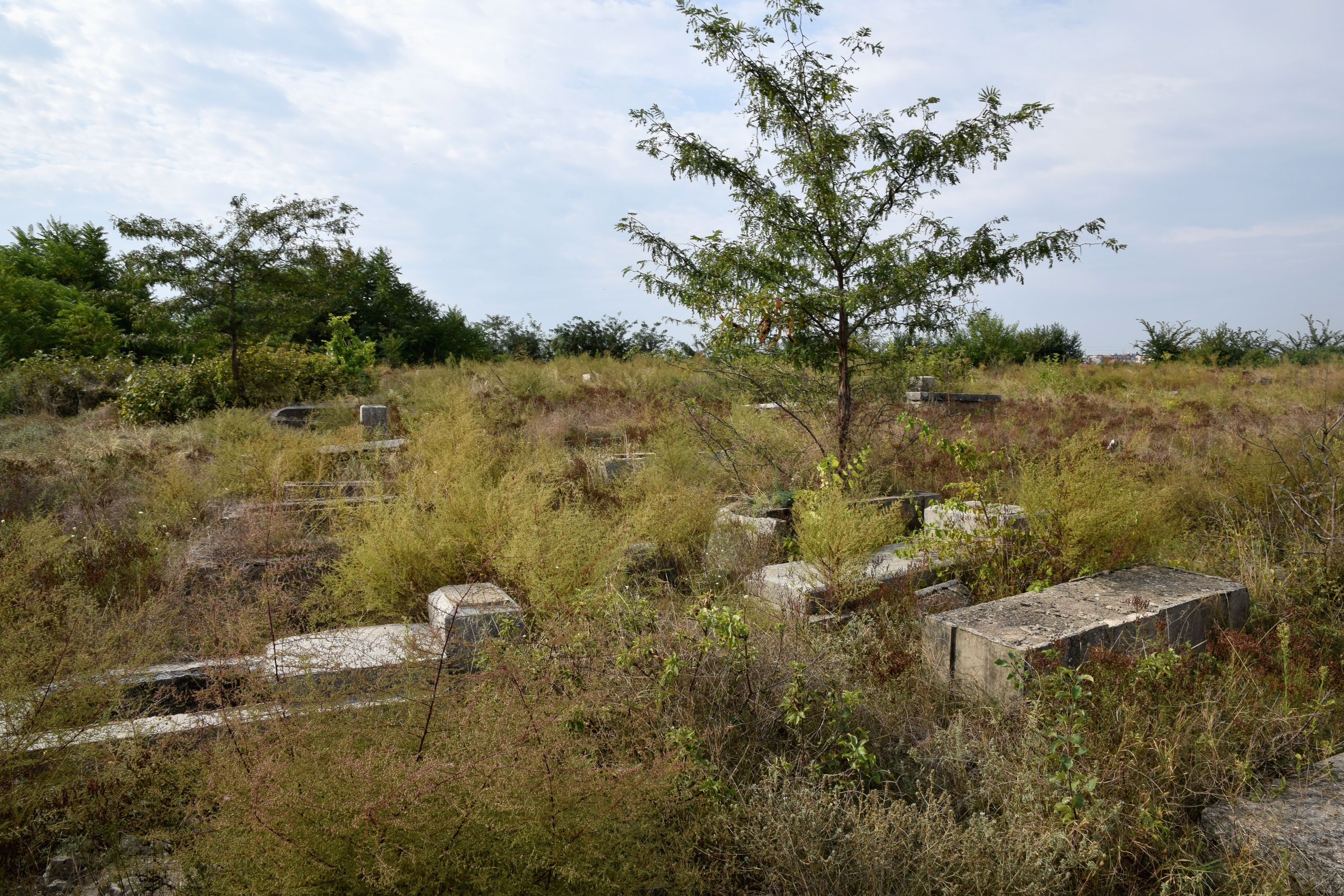 Jewish cemetery Vidin